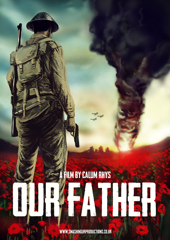 The official poster for World War II short film Our Father. Designed by Balazs Pakozdi. Other information Uploader has full contact information of the author.